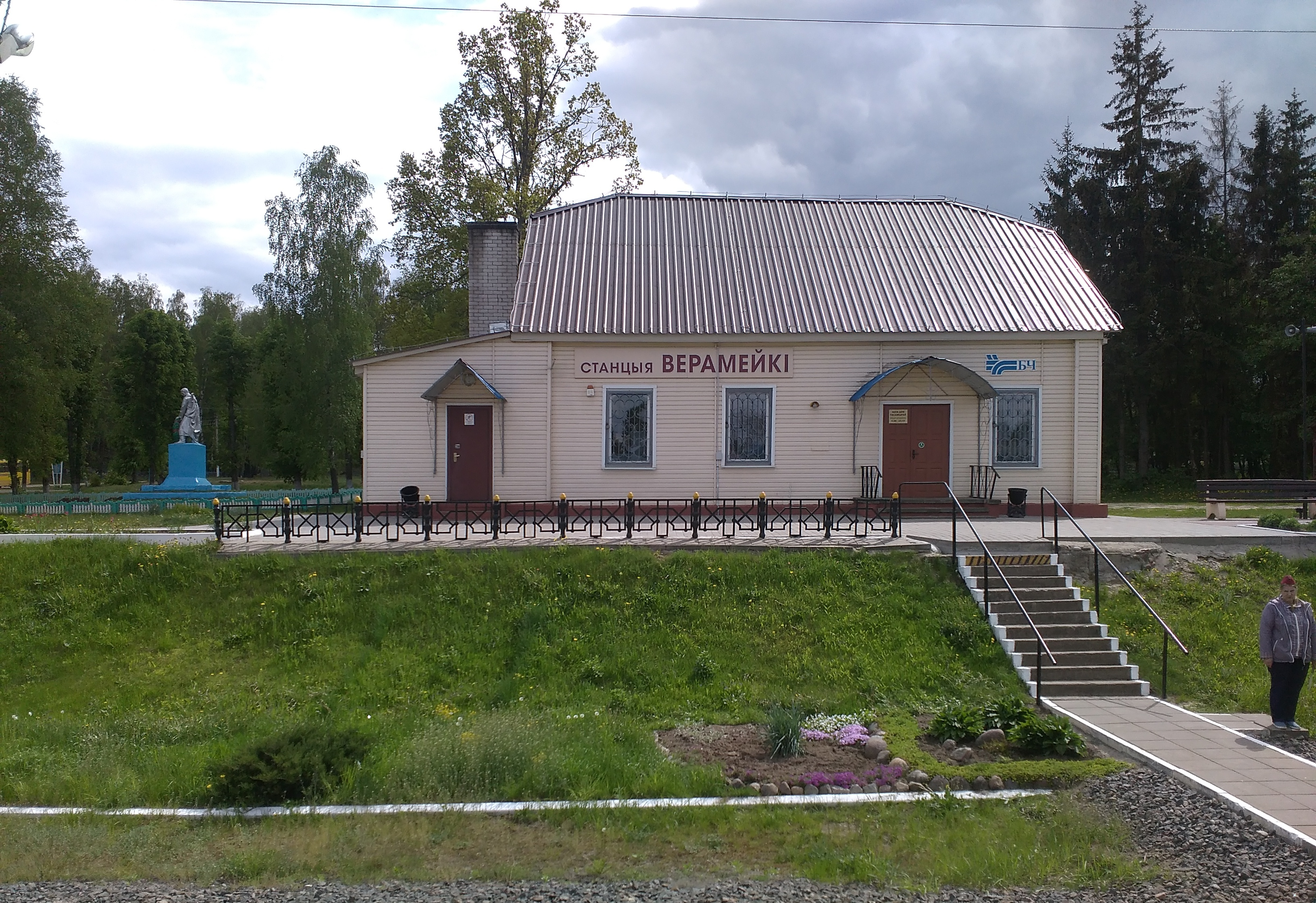 Veremeyki (Belarus). Railway station